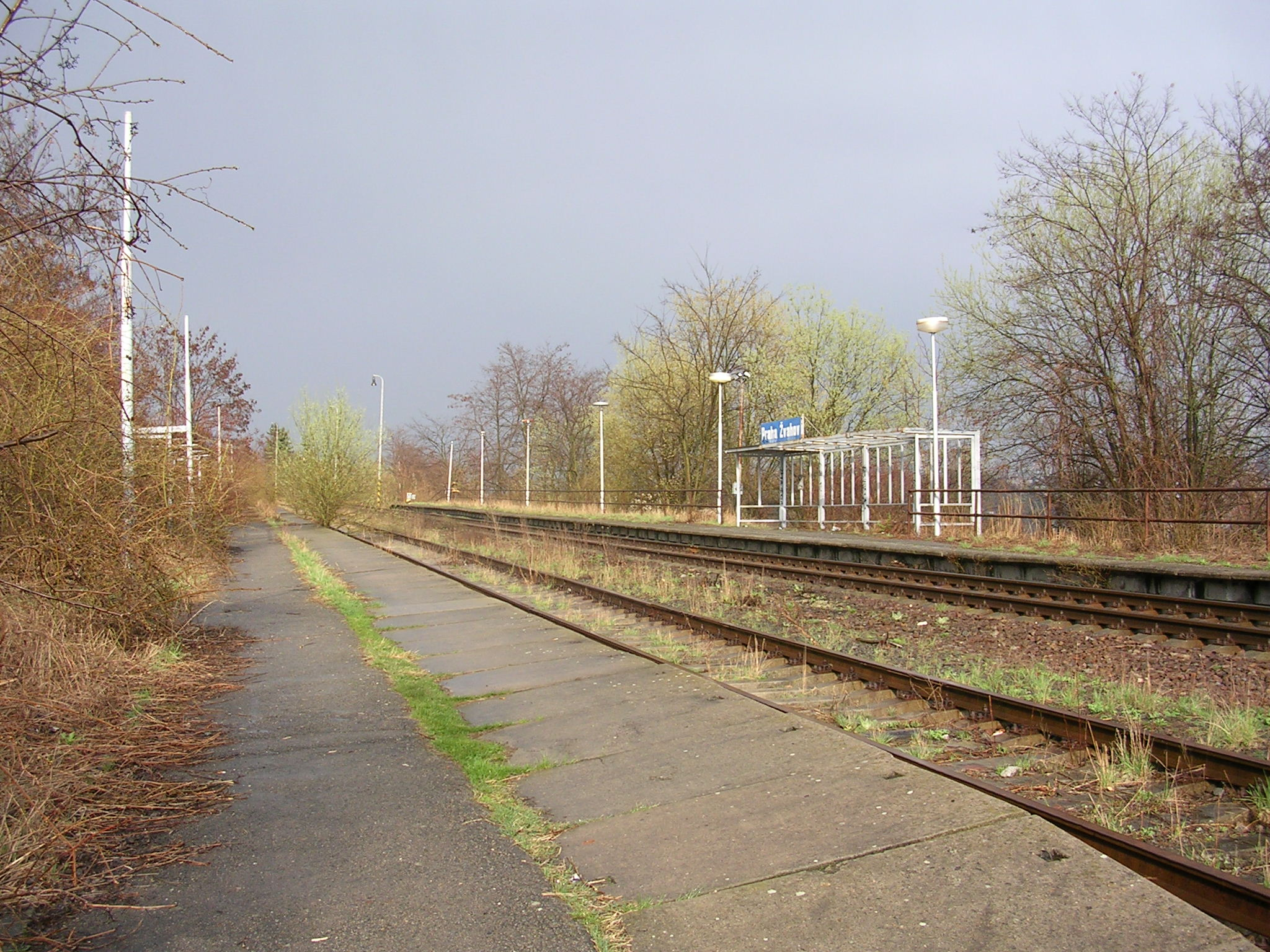 Hlubočepy, Prague, the Czech Republic. Praha-Žvahov train station.